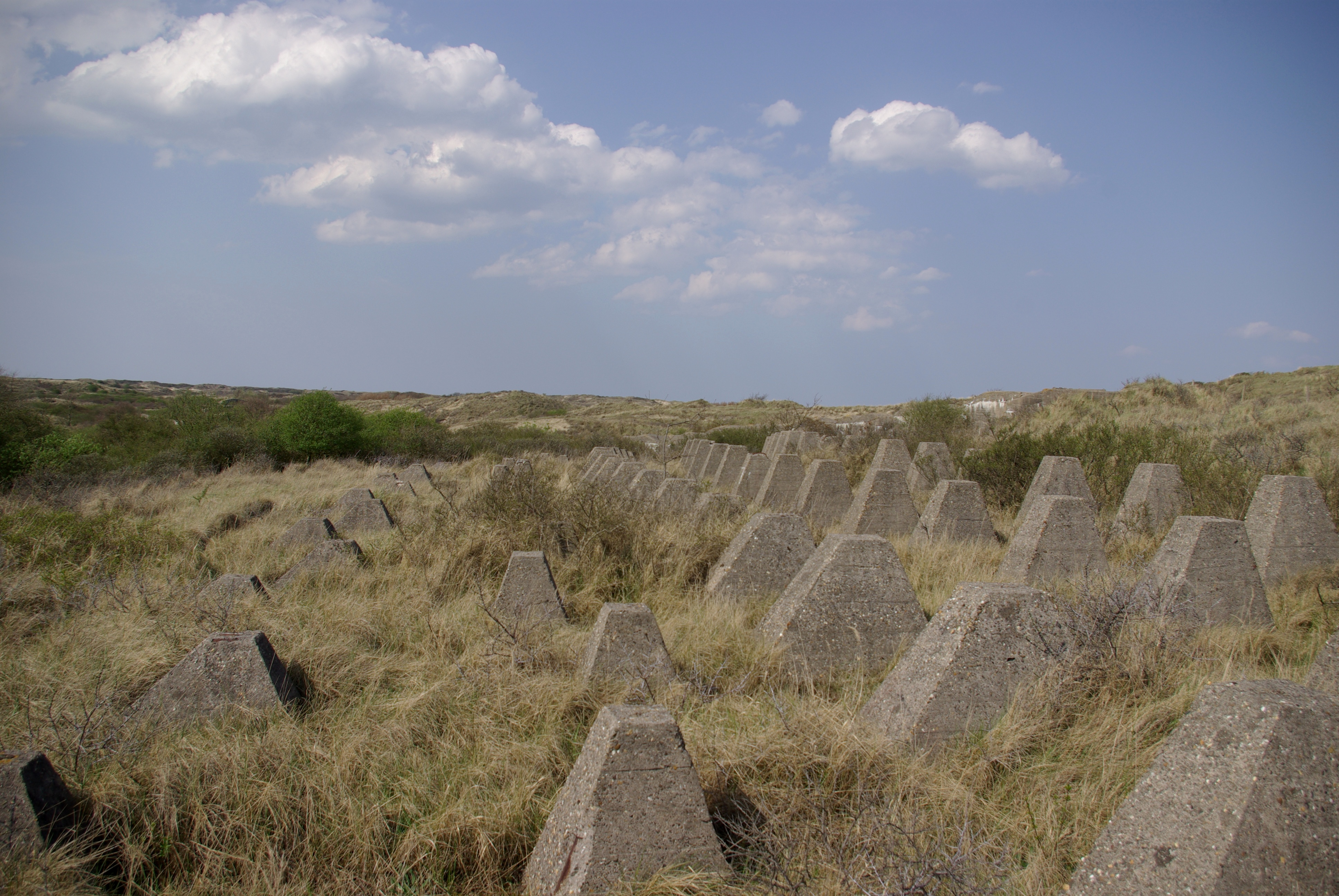 Atlantic Wall, Katwijk, anti-tank obstacles